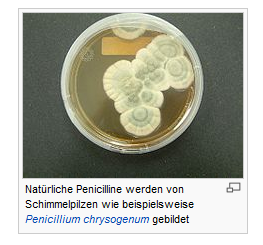 Penicilline